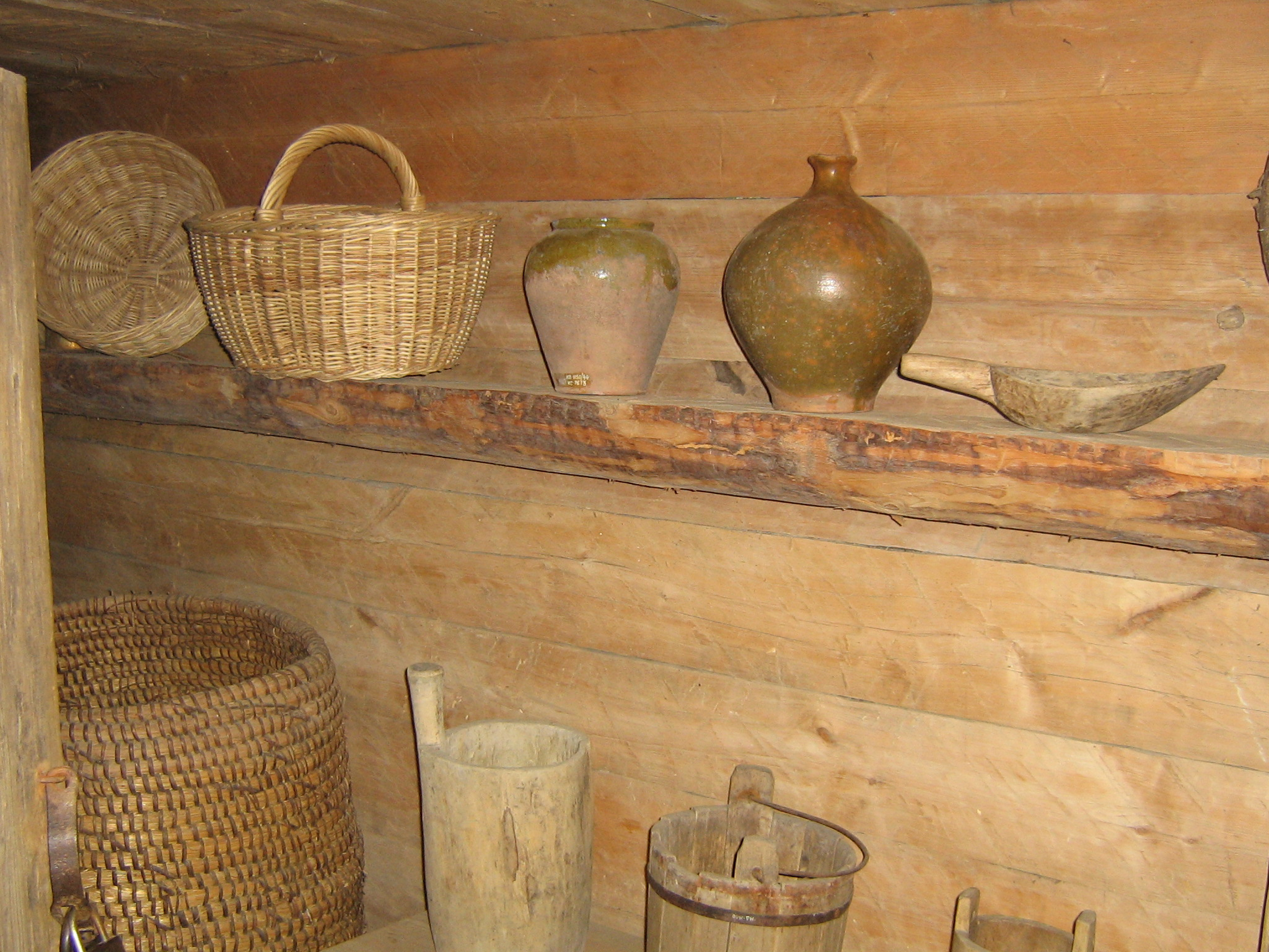 Pots and baskets at the Museum of Folk Architecture and Ethnography in Pyrohiv